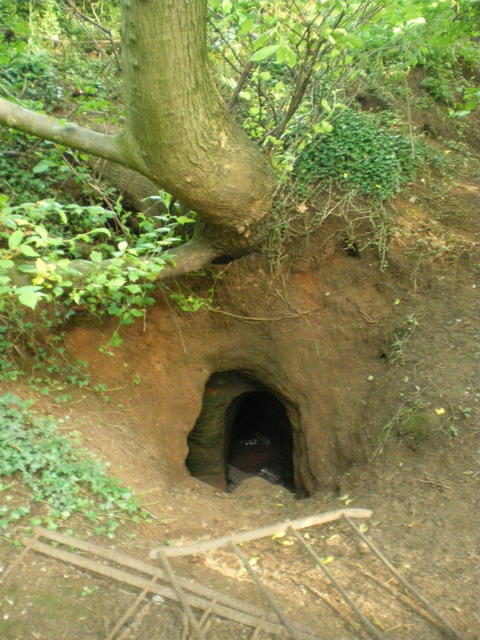 Entrance to the Caynton Hall cave / grotto In the woods just to the west of Caynton Hall, this hole leads down into a grotto cut into the soft sandstone. The hall was owned in the mid 1850s by the Legge family, and it's thought that the grotto was cut out then, but the reasons aren't clear. It consists of a series of passages and chambers, with niches in the walls for candles or other lighting, and the carving of the rooms is quite professional. I have posted a number of underground images to illustrate this. It's a creepy place, and is rumoured to have been used in the 1980s for 'Black Magic' rituals (probably not involving boxes of chocolates...).